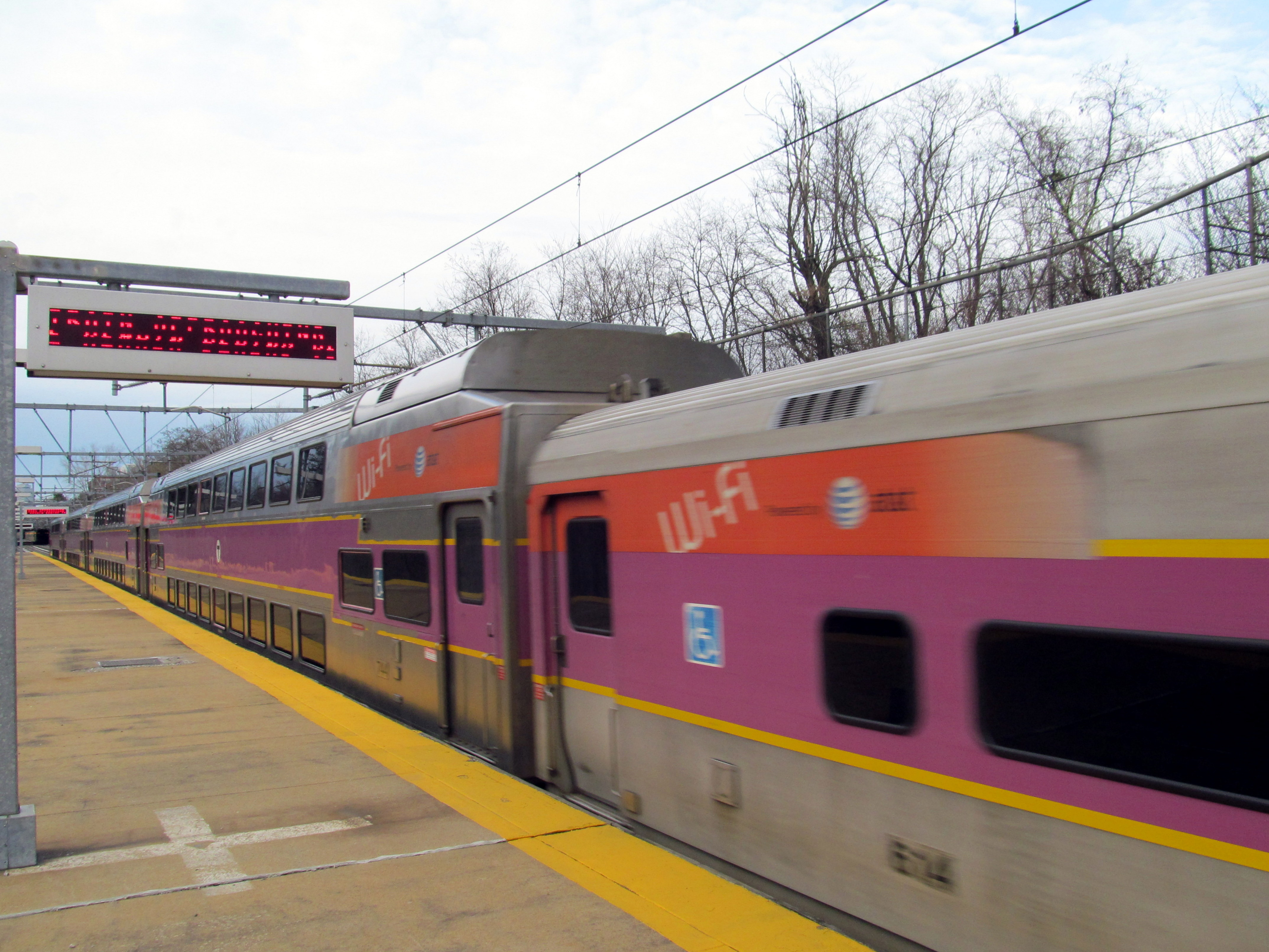 An outbound Needham Line train arrives at Forest Hills